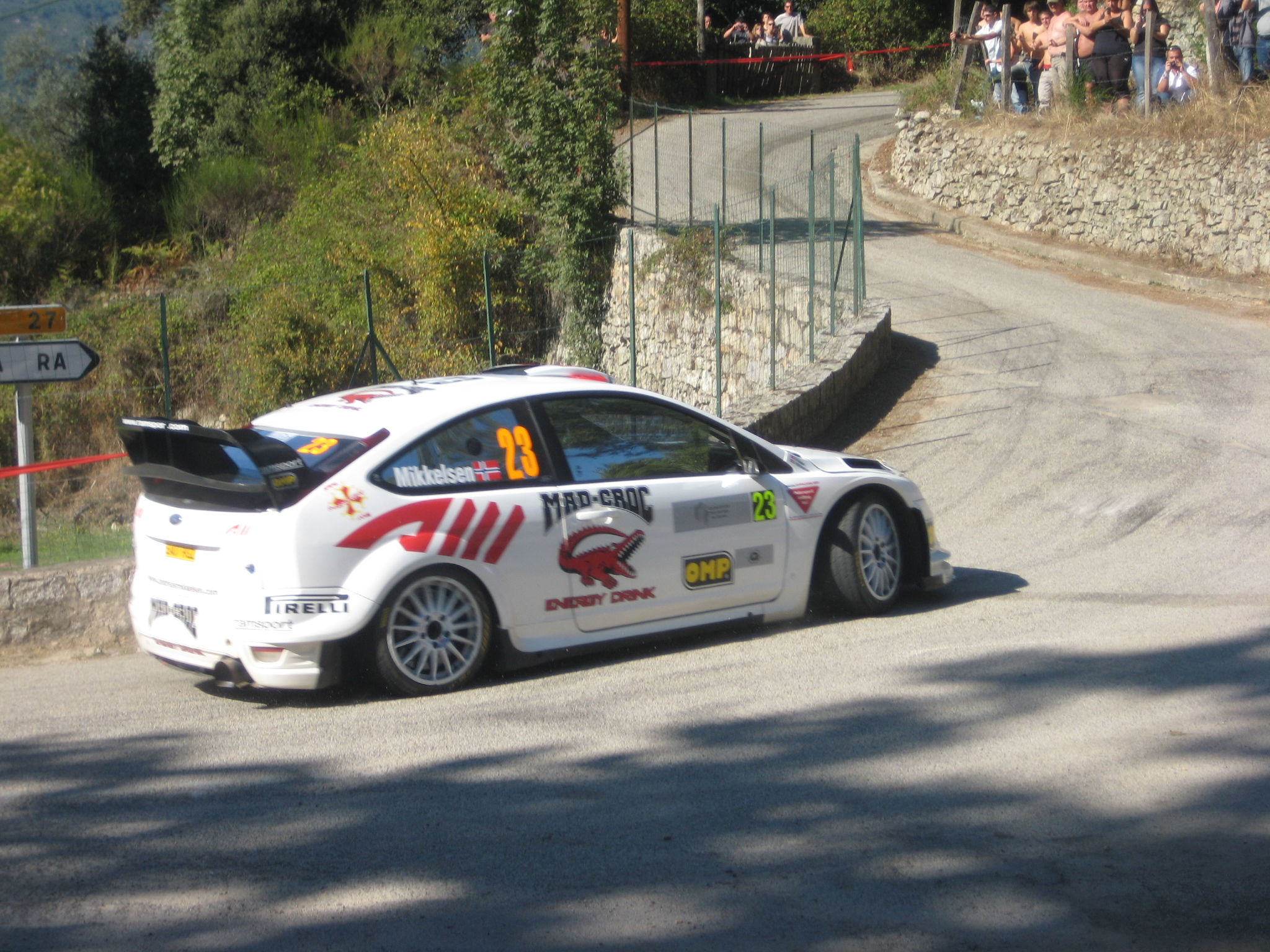 2008 Rallye de France, Day 2-SS10, Andreas Mikkelsen - Ford Focus WRC